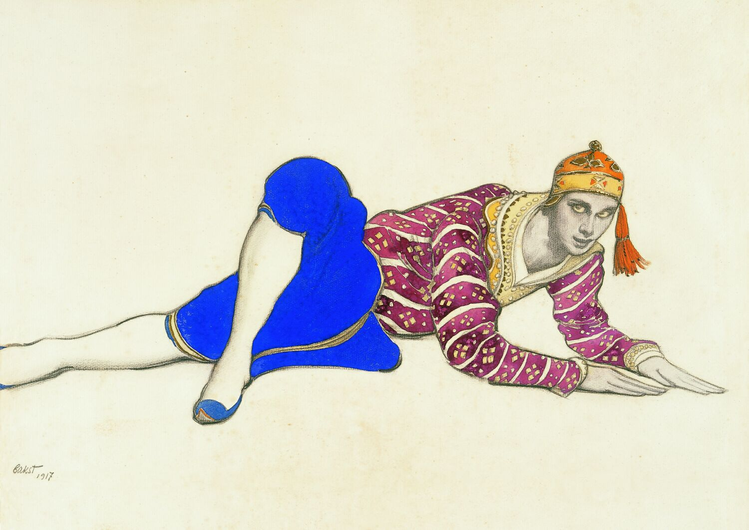 Bakst, Leon (1866-1924) Costume design for Vaslav Nijinsky as the Chinese Dancer in Les Orientales. 1917. Watercolor and graphite on paper, 18 x 25 3/8 in. Gift of the Tobin Foundation (TL1998.34). Location :McNay Art Museum, San Antonio, Texas, U.S.A.